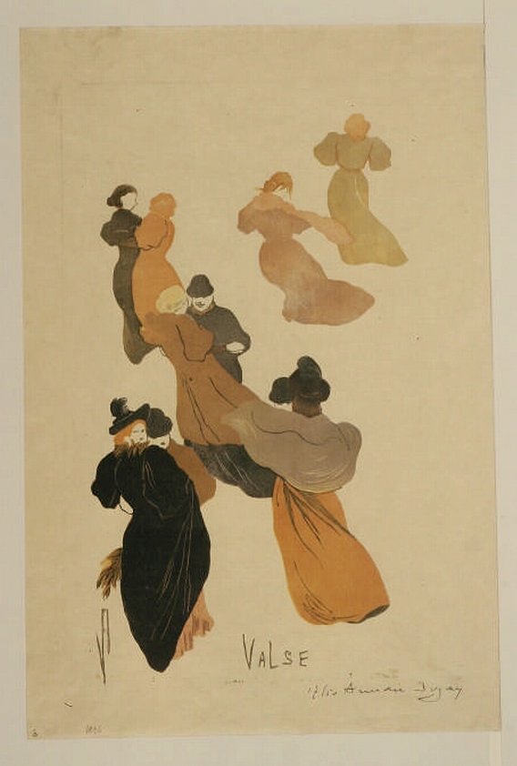 Valse, woodcut by Amédée Joyau. Dim. : 25.5 x 13 cm.